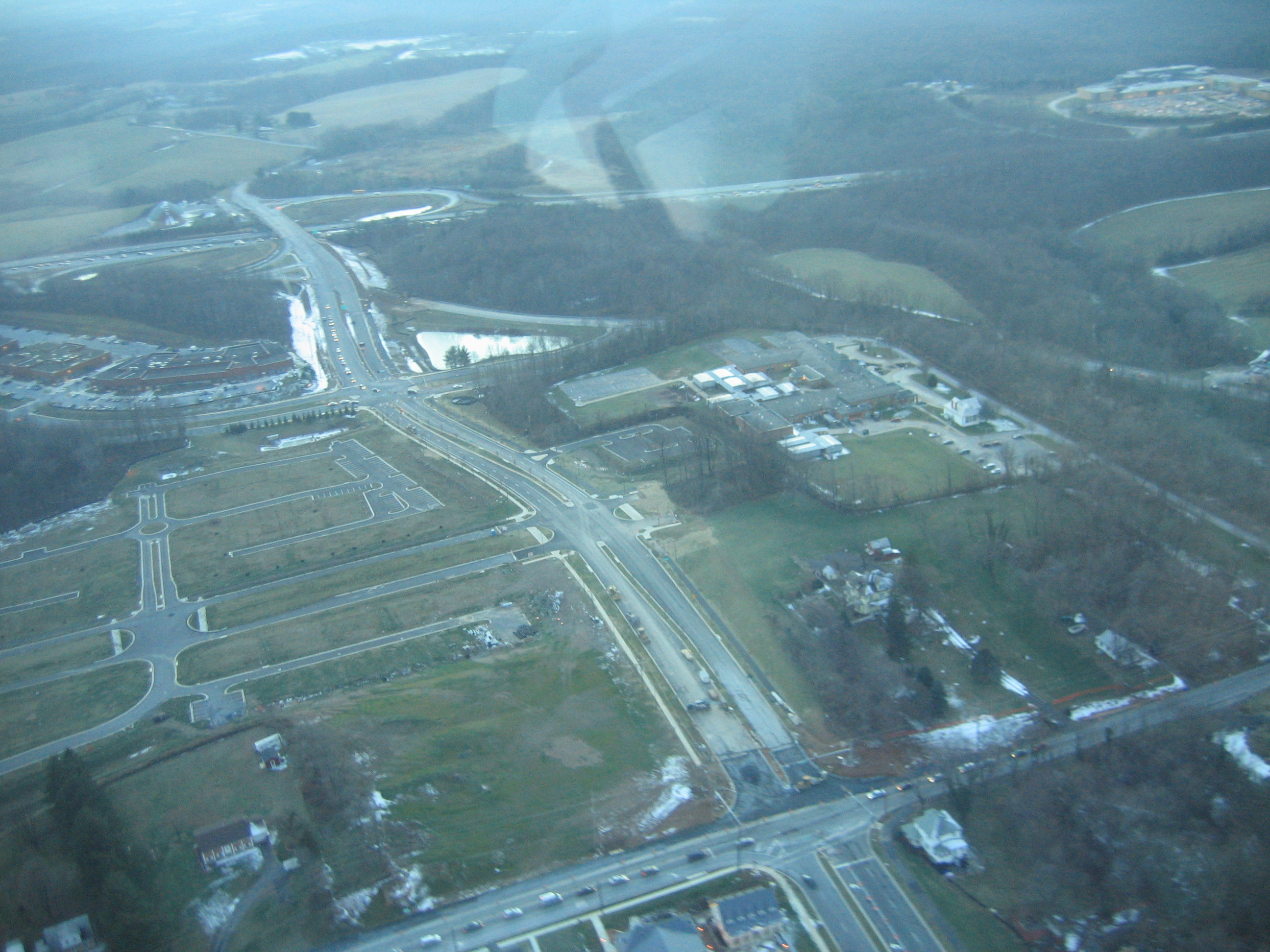 Stringtown Road runs from through the center from the bottom to the interchange near the top, where it continues on as MD 121 (Clarksburg Road) to the horizon. MD 121 splits toward the center-right, generally hidden behind trees. These roads interchange with I-270, which runs left to right, toward the top. The left-right roadway at the bottom is MD 355. Clarksburg, MD, USA